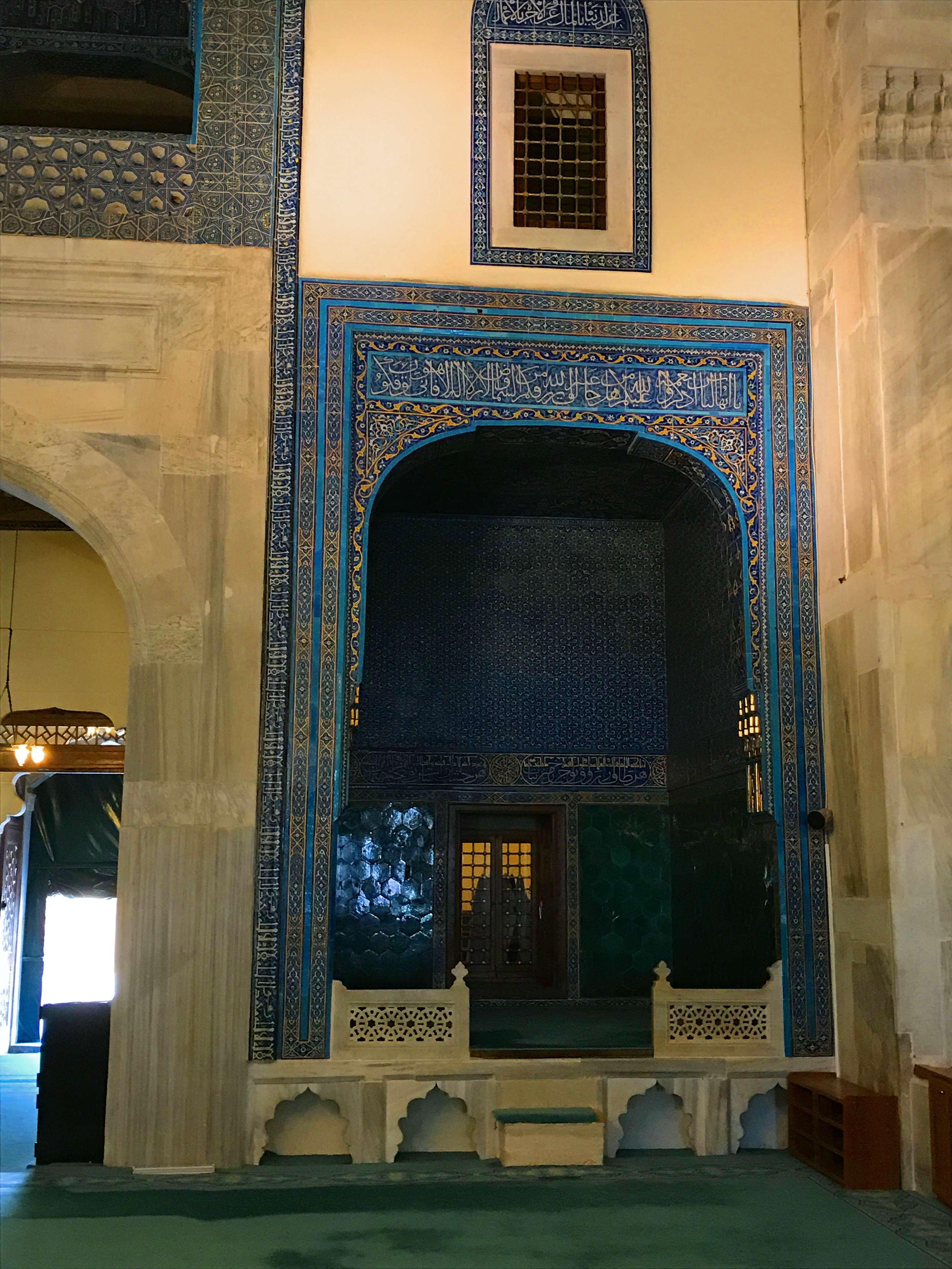 Green Mosque of Bursa, Turkey, 2017. Green Mosque (Turkish: Yeşil Camii, "Yeşil Mosque"), also known as Mosque of Sultan Mehmed I, is a part of the larger complex (a külliye) located on the east side of Bursa, Turkey, the former capital of the Ottoman Turks before they captured Constantinople in 1453. The complex consists of a mosque, türbe, madrasah, kitchen and bath.